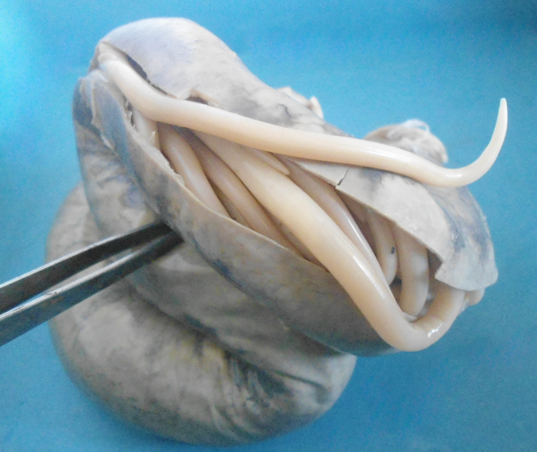 Resected segment of small intestine which is partly cut opened showing multiple creamy white adult worms filling the lumen.